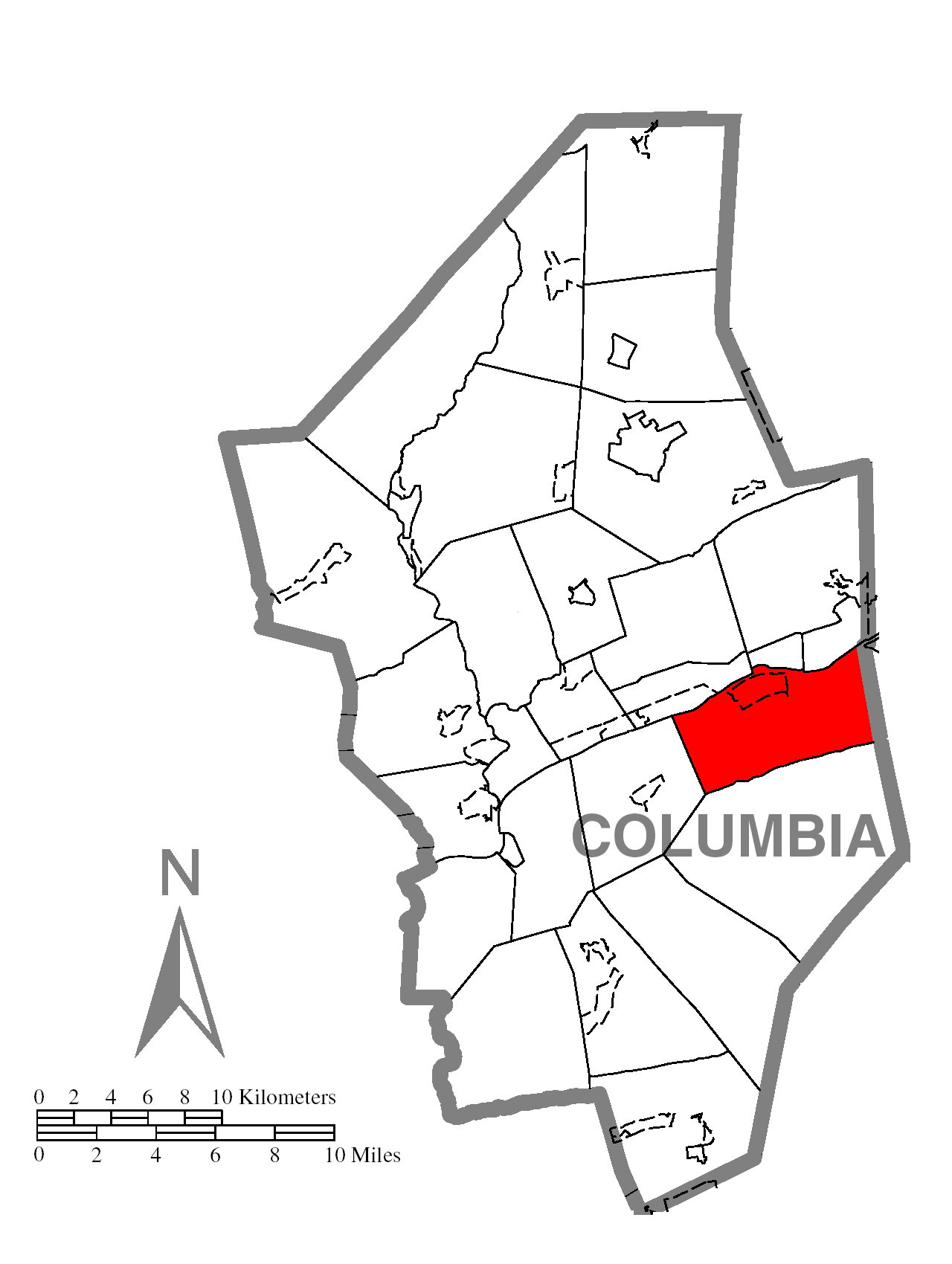 A map of Columbia County showing Mifflin Township, Pennsylvania (alternate) highlighted on the map.